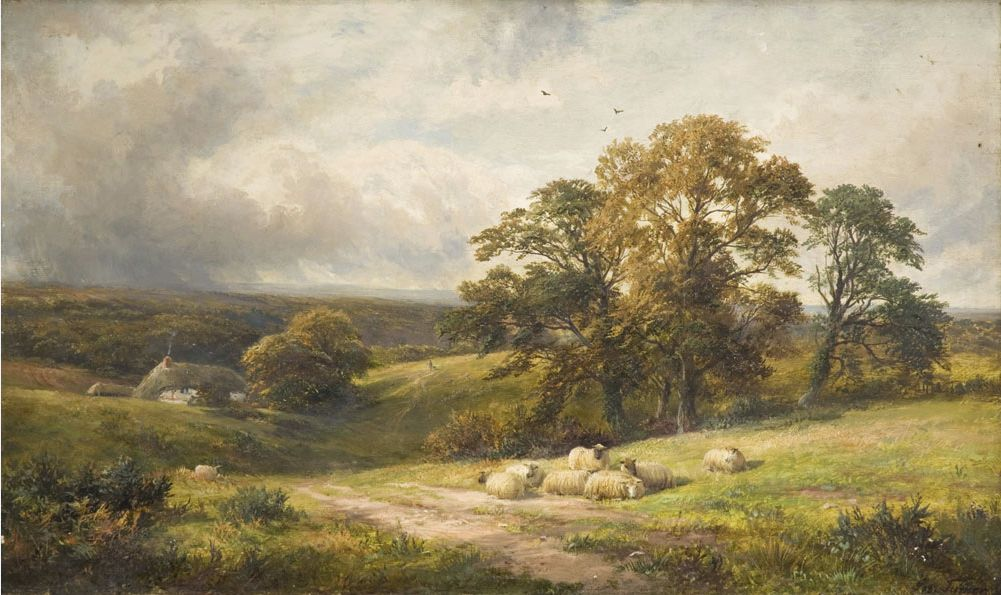 A quiet scene in Derbyshire (oil painting) by George Turner